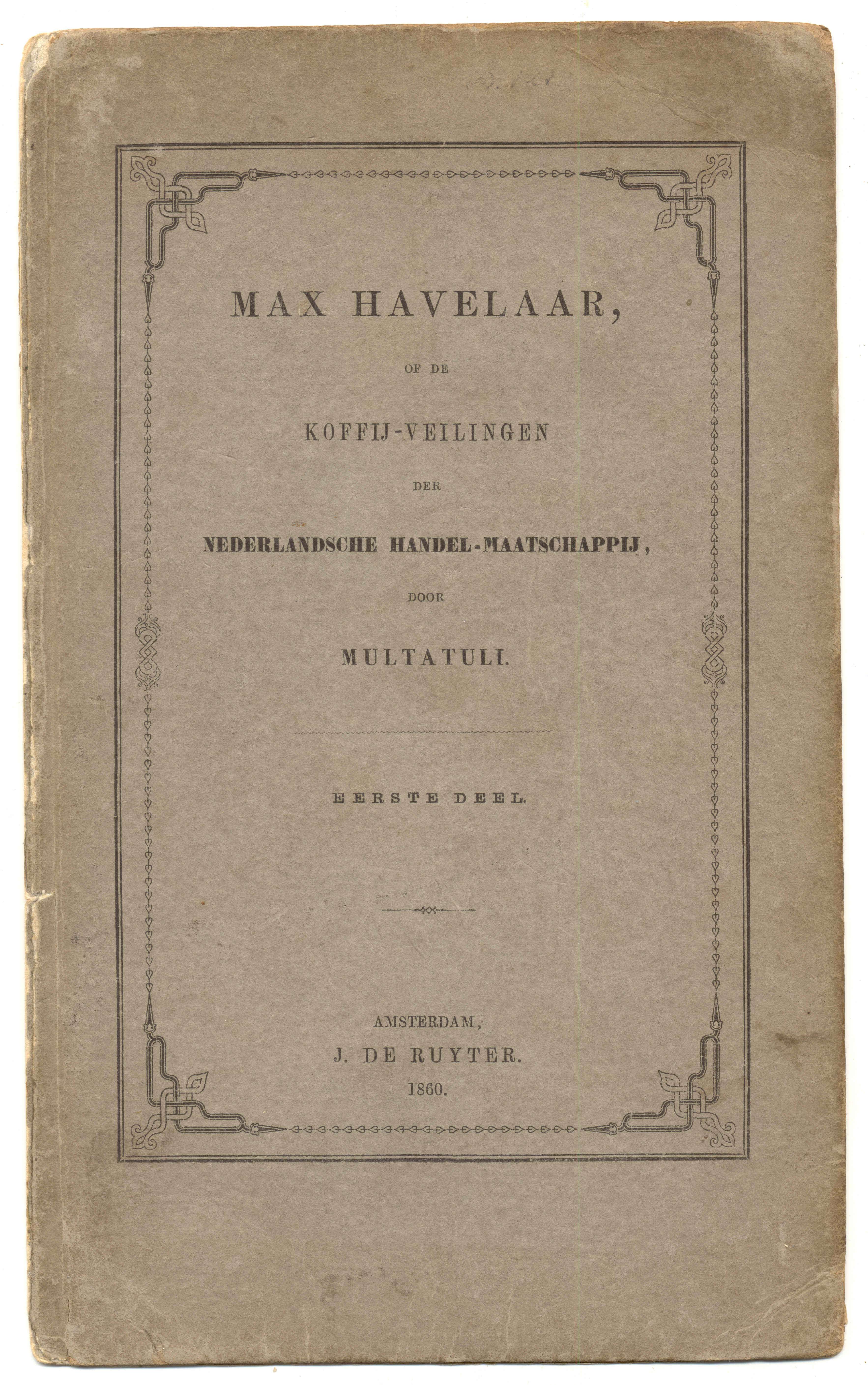 Cover of the first edition of Max Havelaar by Multatuli, J. De Ruyter, 1860, Amsterdam